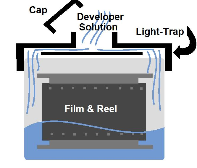 Illustration of a typical photo developing tank with a light-trap lid